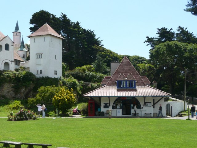 The post office, Caldey Island (Ynys Bŷr) Built in 1909-10, with an odd double hipped dormer roof. Part of the abbey buildings to the left, with fairy-tale round towers.